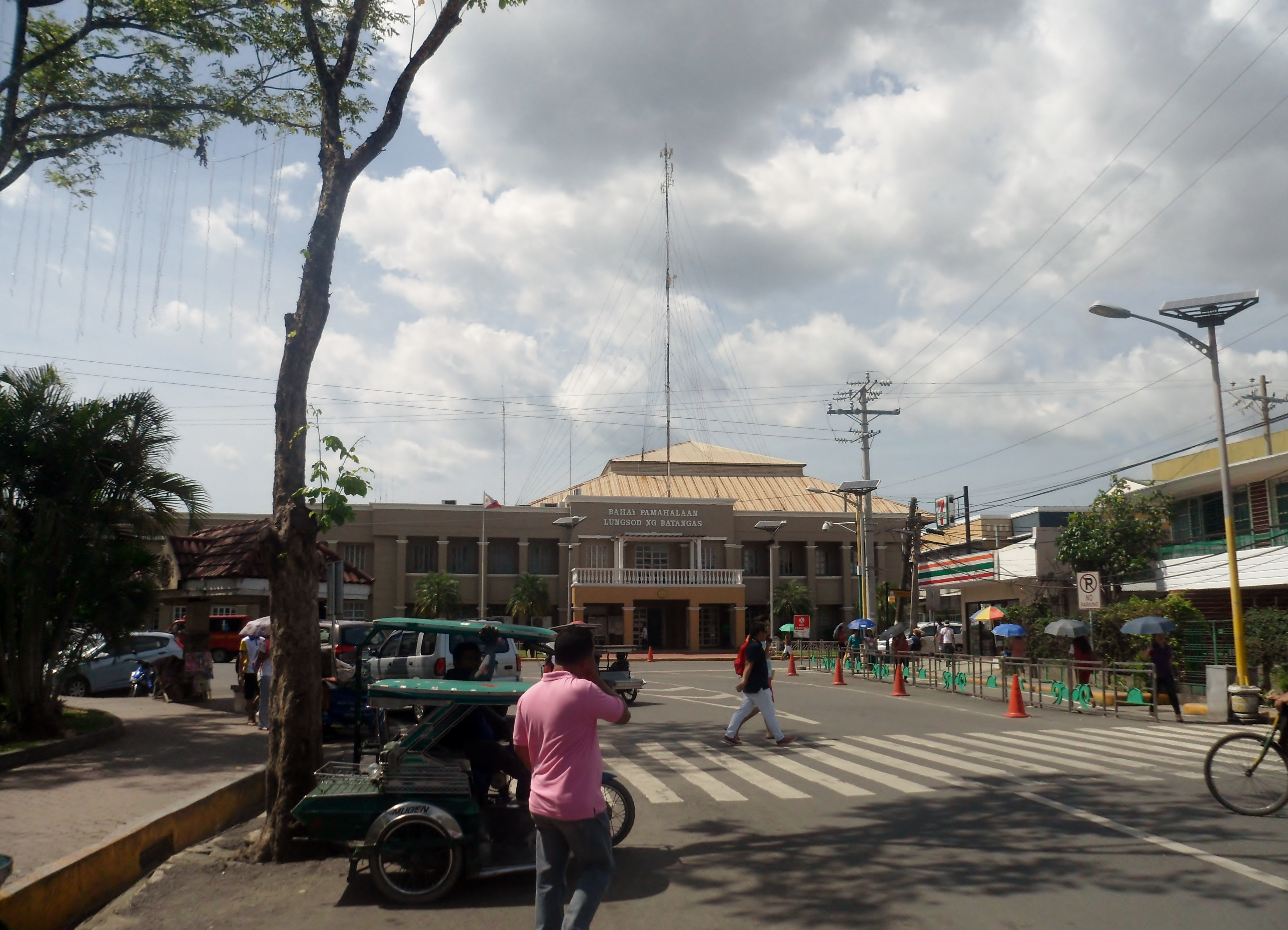 Batangas City Hall, seen from P. Panganiban Street, near Plaza MabiniTagalog: Bahay Pamahalaan, Lungsod ng Batangas, na makikita mula sa P. Panganiban, malapit sa Plaza Mabini.